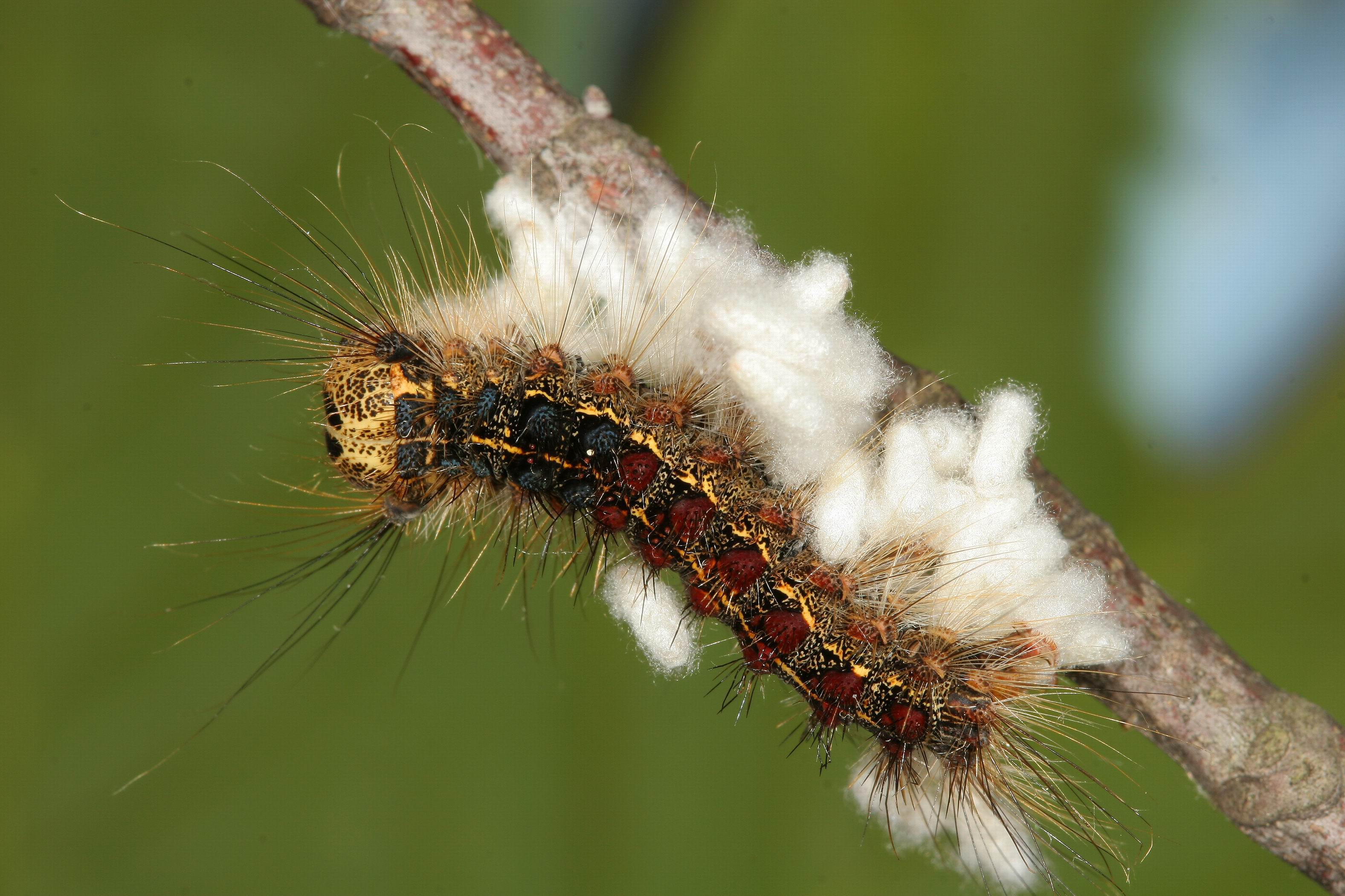 Caterpillar of gypsy moth (Lymantria dispar) killed by the gregarious braconid wasp (Glyptapantheles liparidis). This parasitoid is a major natural enemy of the worldwide known forest pest. 48 larvae developed in a single host and pupated under it after leaving the agonizing caterpillar’s body.